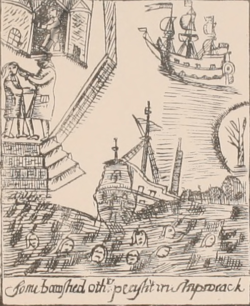 perished in shipwreck